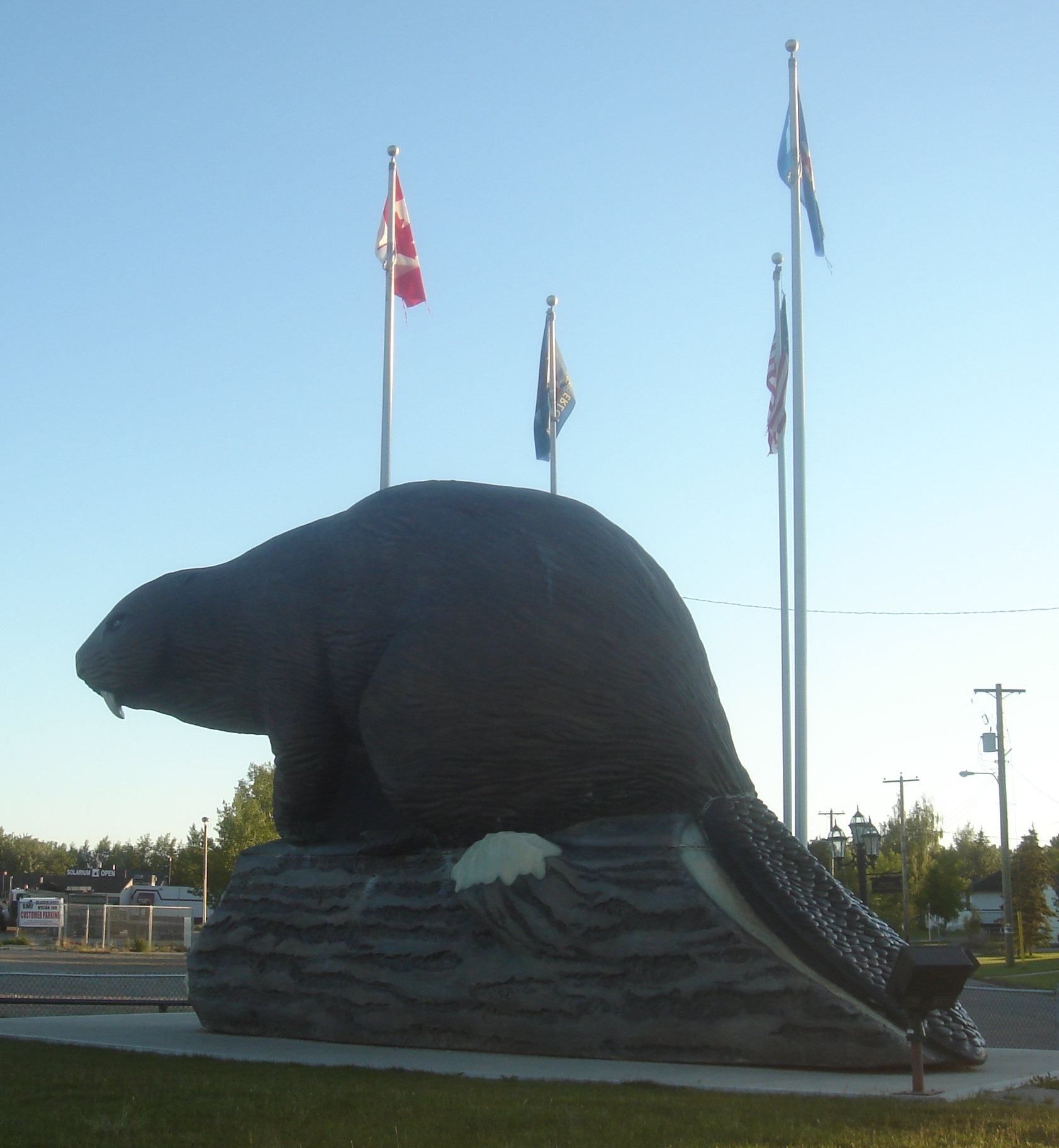 Beaver statue in Beaverlodge, Alberta, Canada